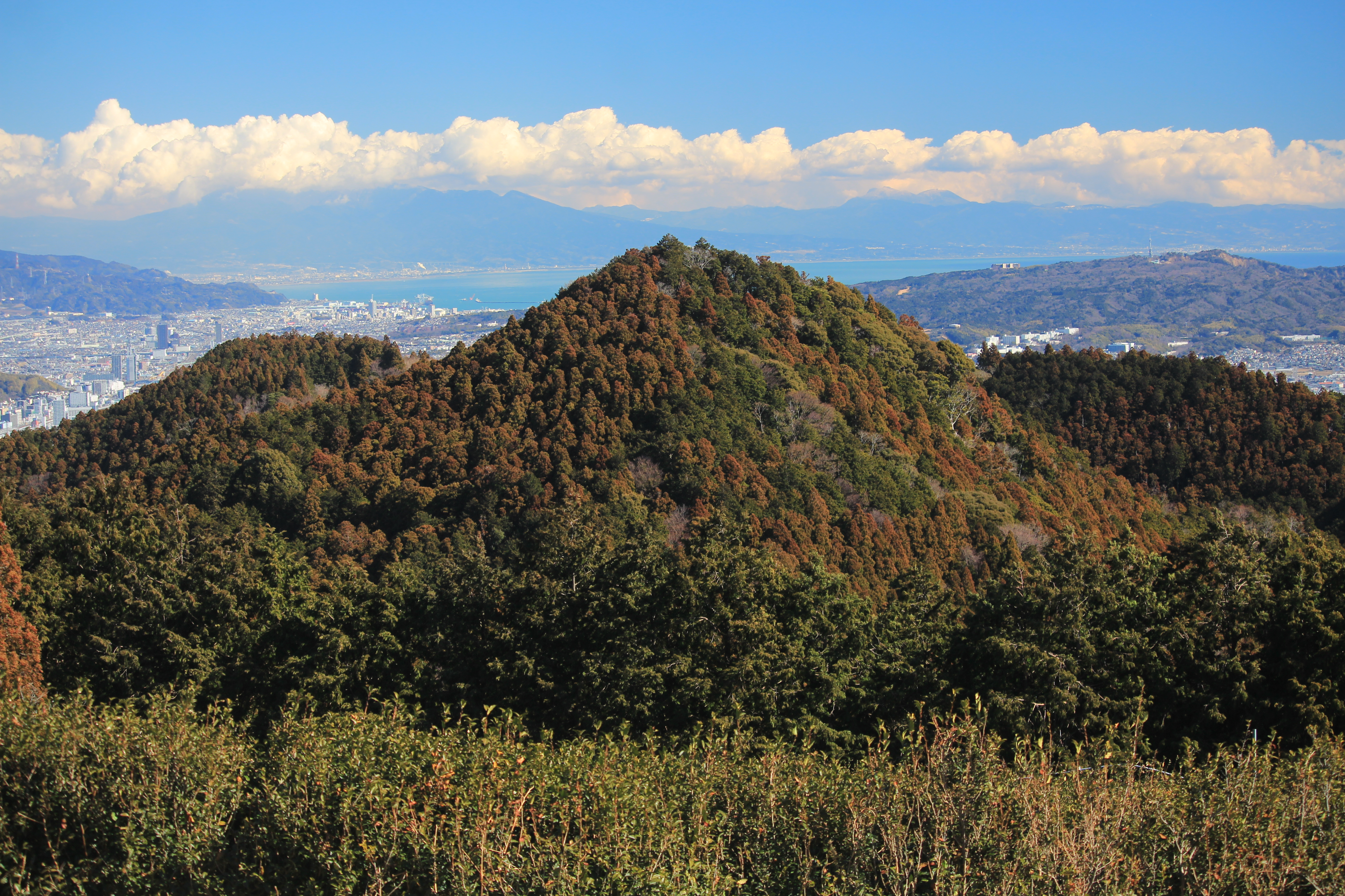 Marukofuji seen from Mount Mankan in Shizuoka, Shizuoka, prefecture,Japan.